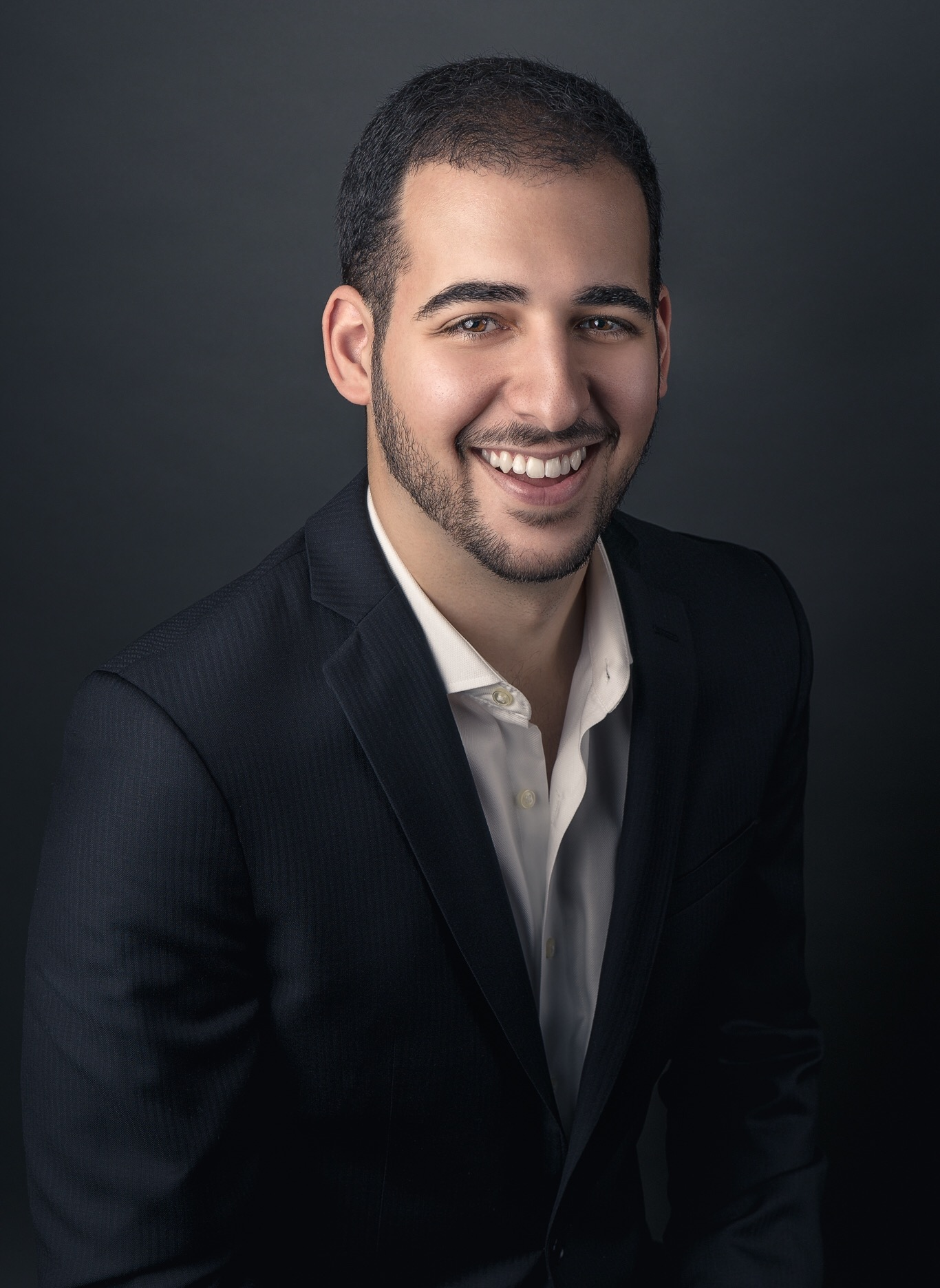 Scott Aharoni's Directorial Headshot